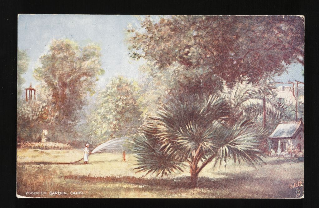 Man watering a lush, green garden